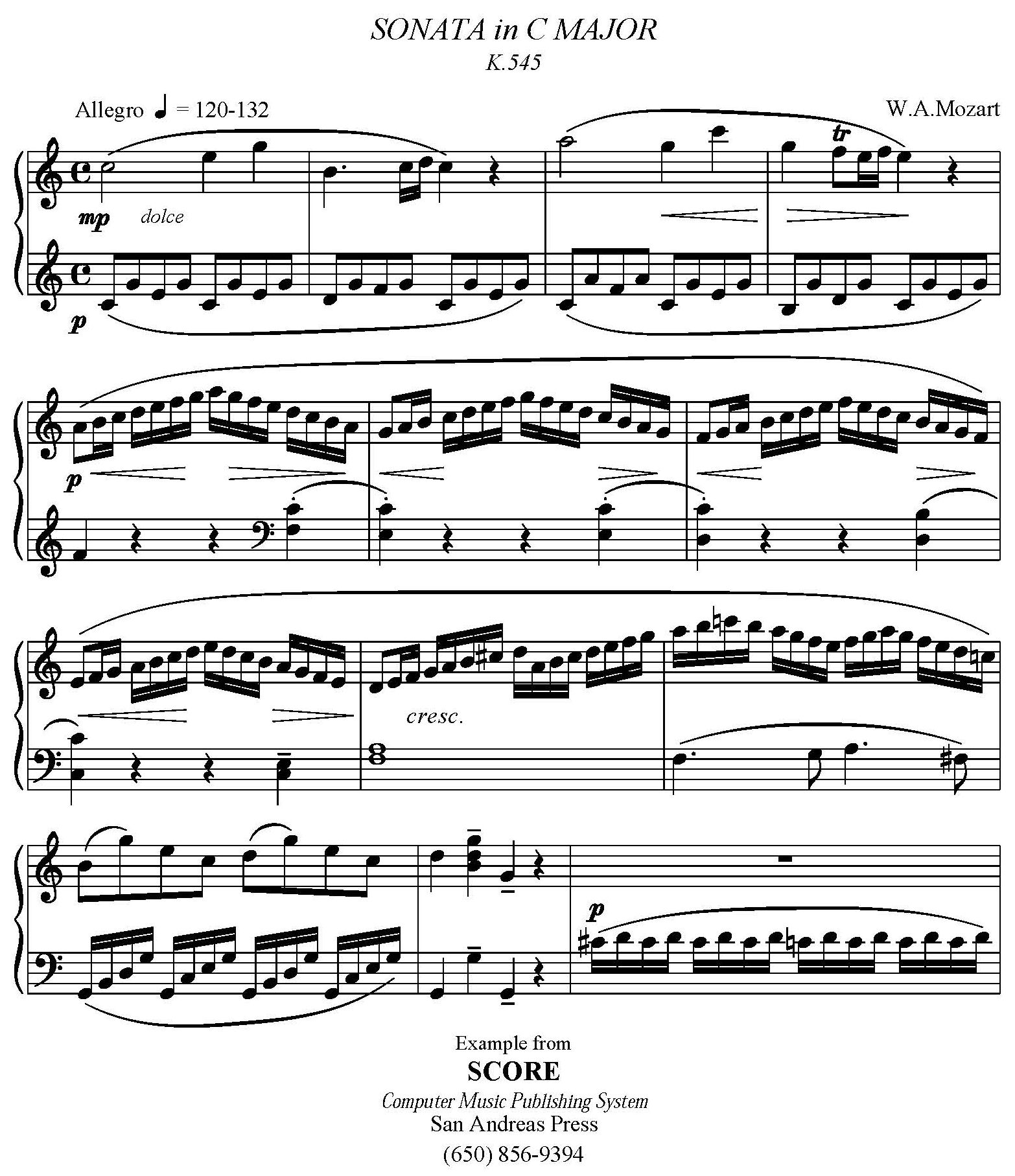 Example output of the SCORE Music Publishing System